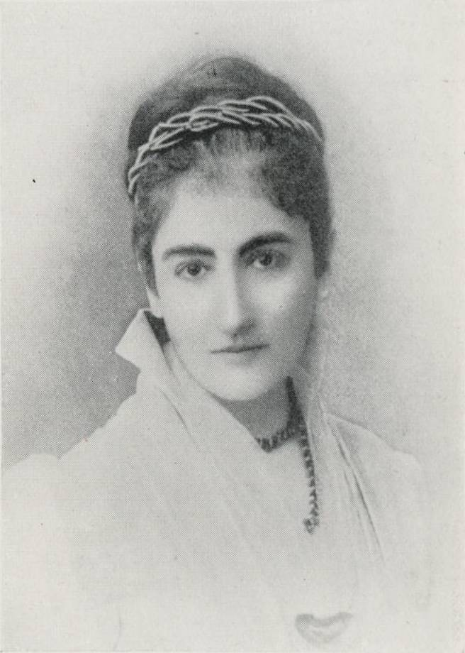 Picture of Princess Nazli.